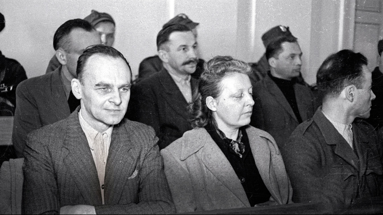 Witold Pilecki (1901-1948) Polish Army officer and intelligence agent during World War II. Photo from his show trial, made by Communist in 1948, when he was sentenced to death.